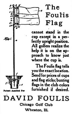 A drawing of an invention by David Foulis. It is a golf cup hole liner.